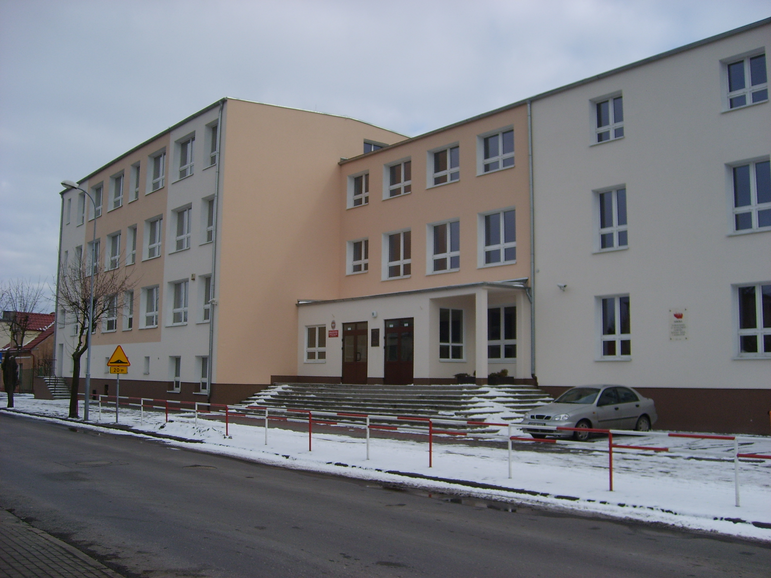 Grammar School No. 1 name of Nicolaus Copernicus in Wrzesnia